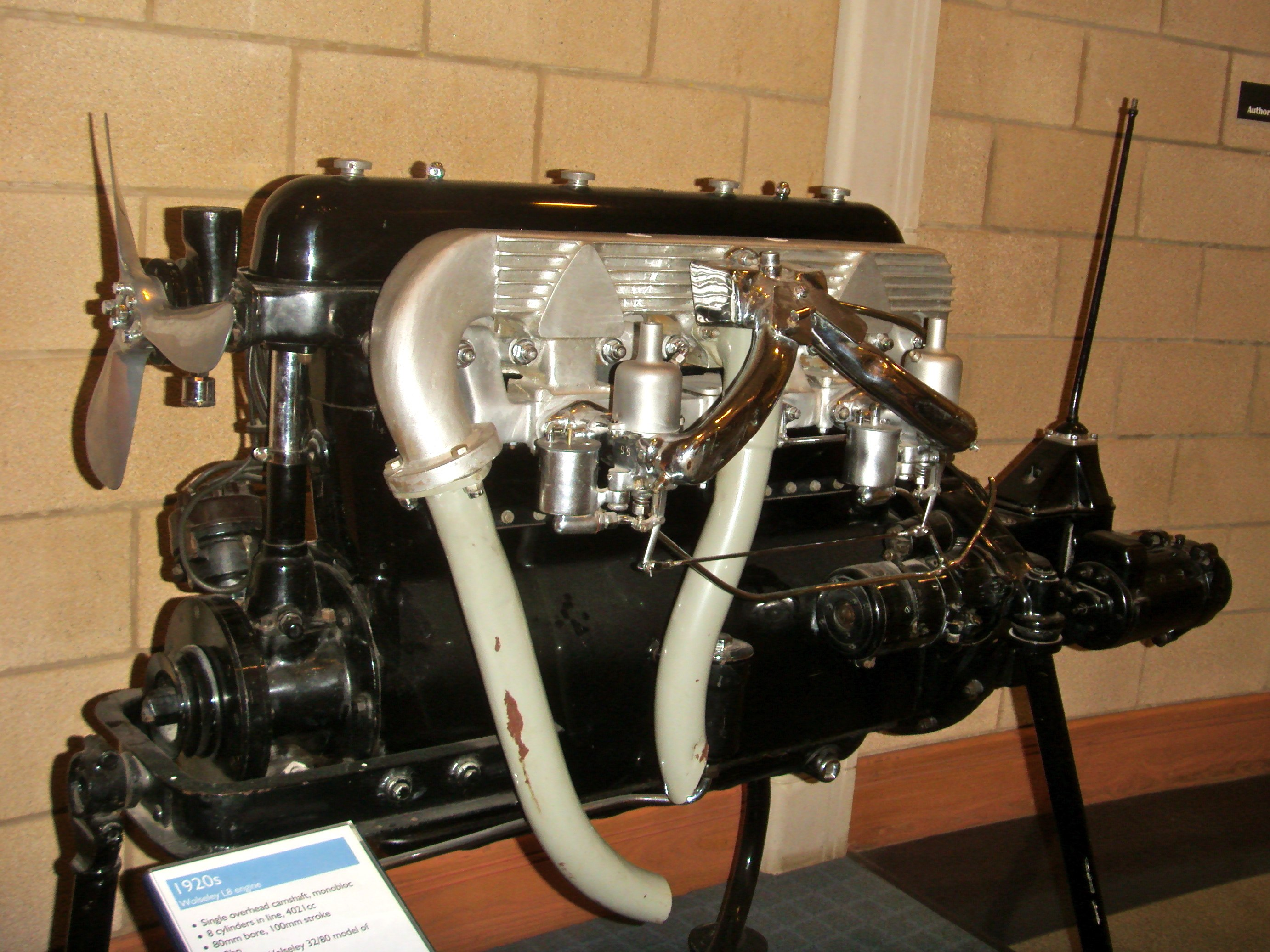 Wolseley Inline-8 Engine